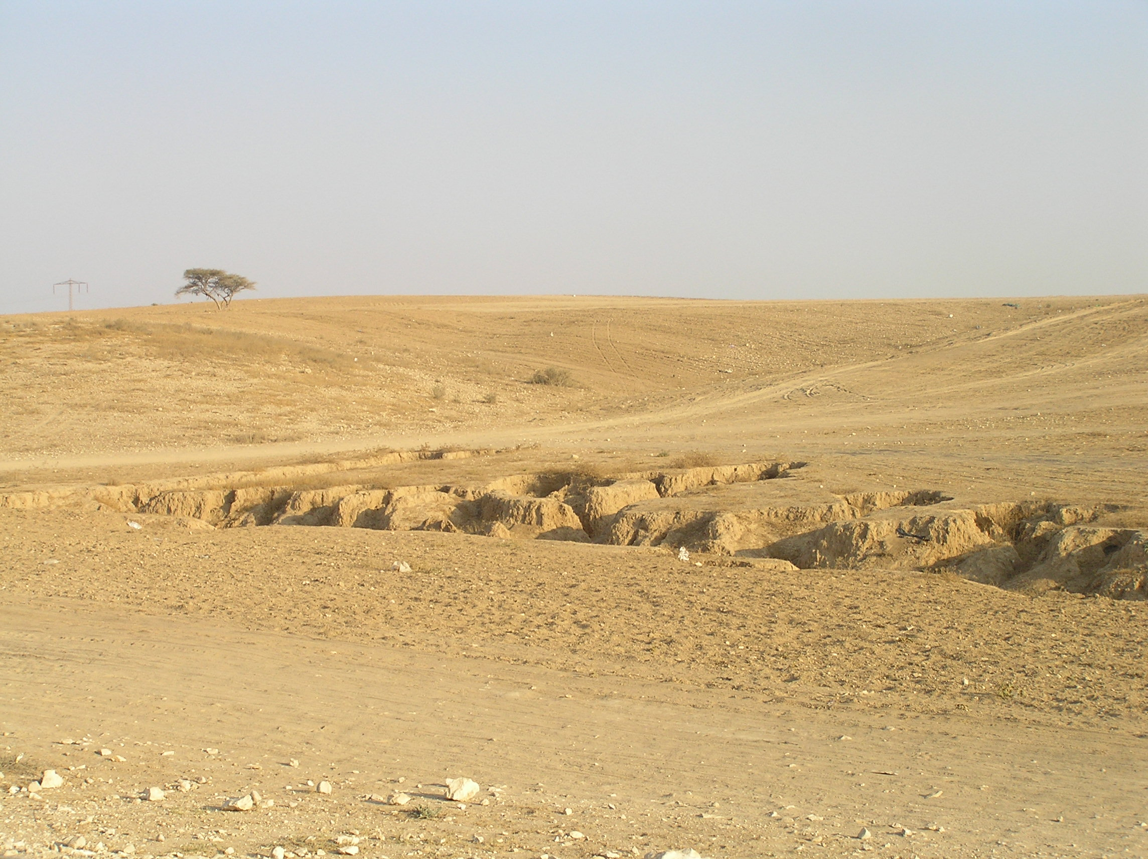 Loess soil landscape in the northern Negev, Israel